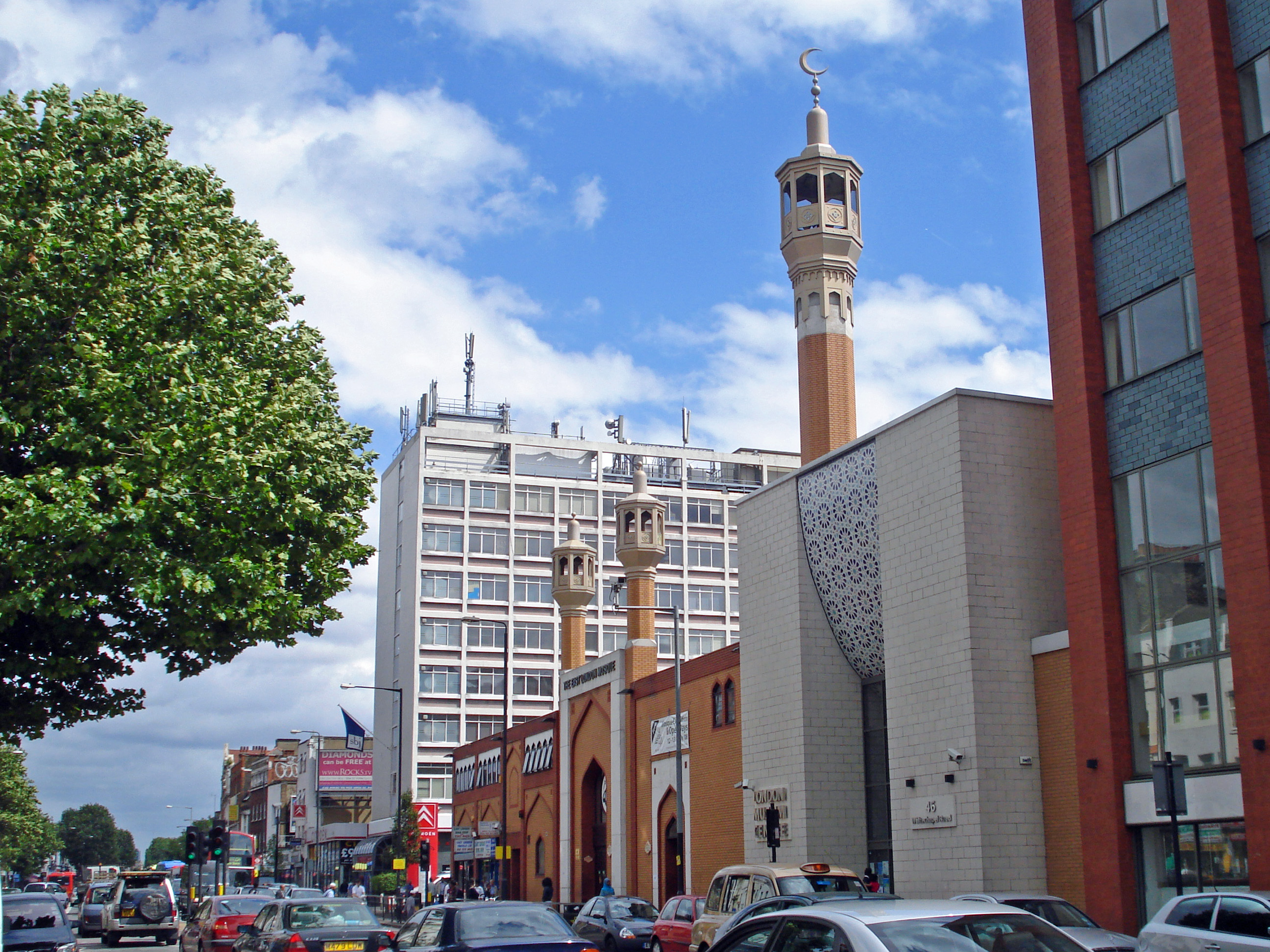 Place of worship for local Bangladeshi Muslims, opened in 1985 on the site of the Rivoli Cinema